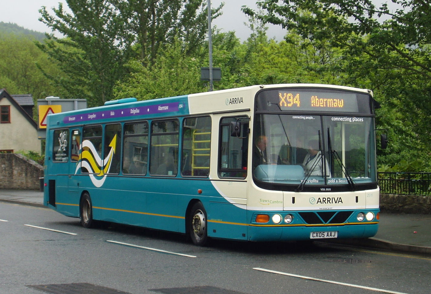 Arriva North West and Wales 2511 (CX05 AAJ), a VDL SB200 with Wright Commander bodywork, seen in Mill Street, Llangollen, Wales, on TrawsCambria route X94.